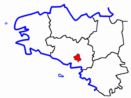 Description: Map for localisazion of cantons of Bretagne region in France Source: made by Hervé Tigier in april 2005 from another large map (published in 1990)